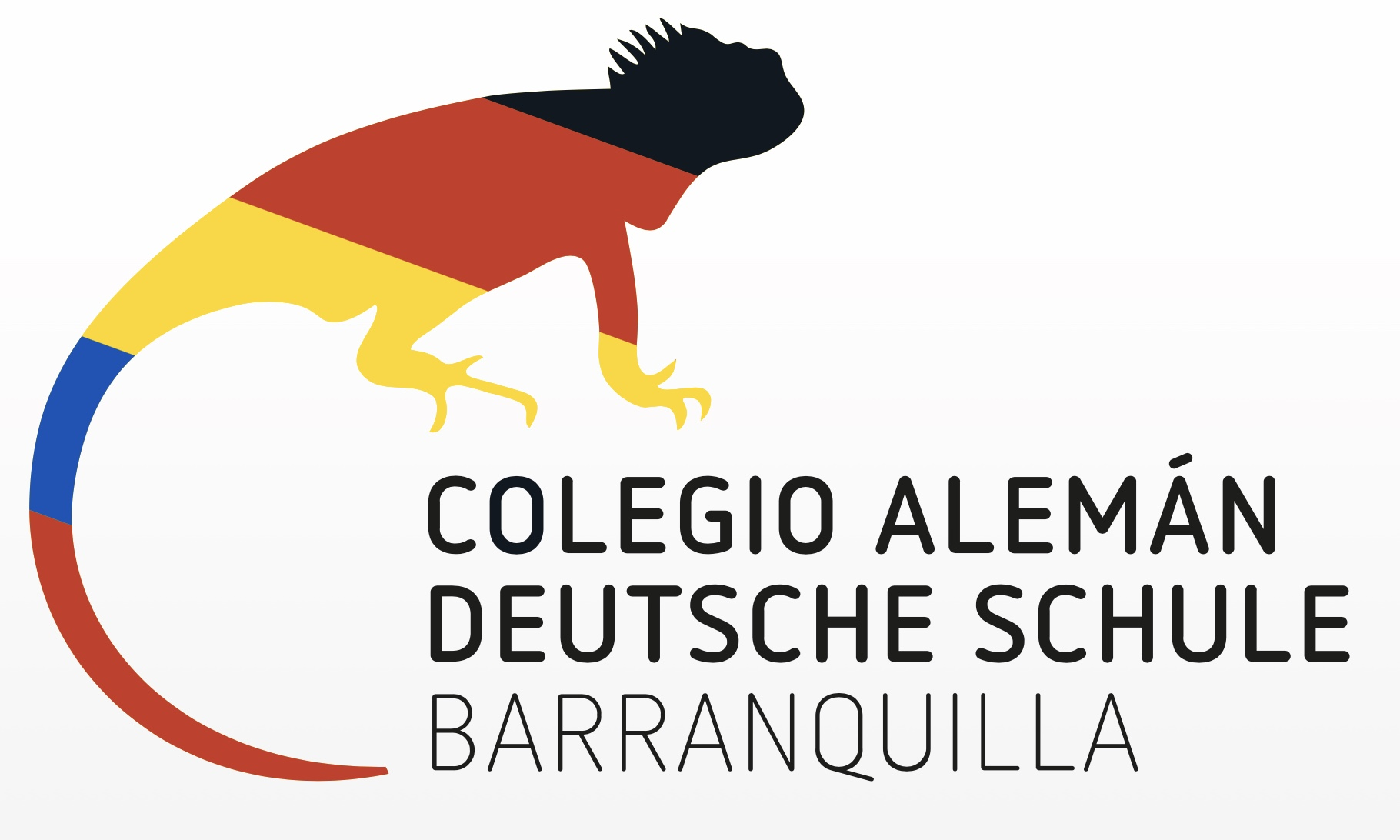 The new Logo of the German School in Barranquilla.